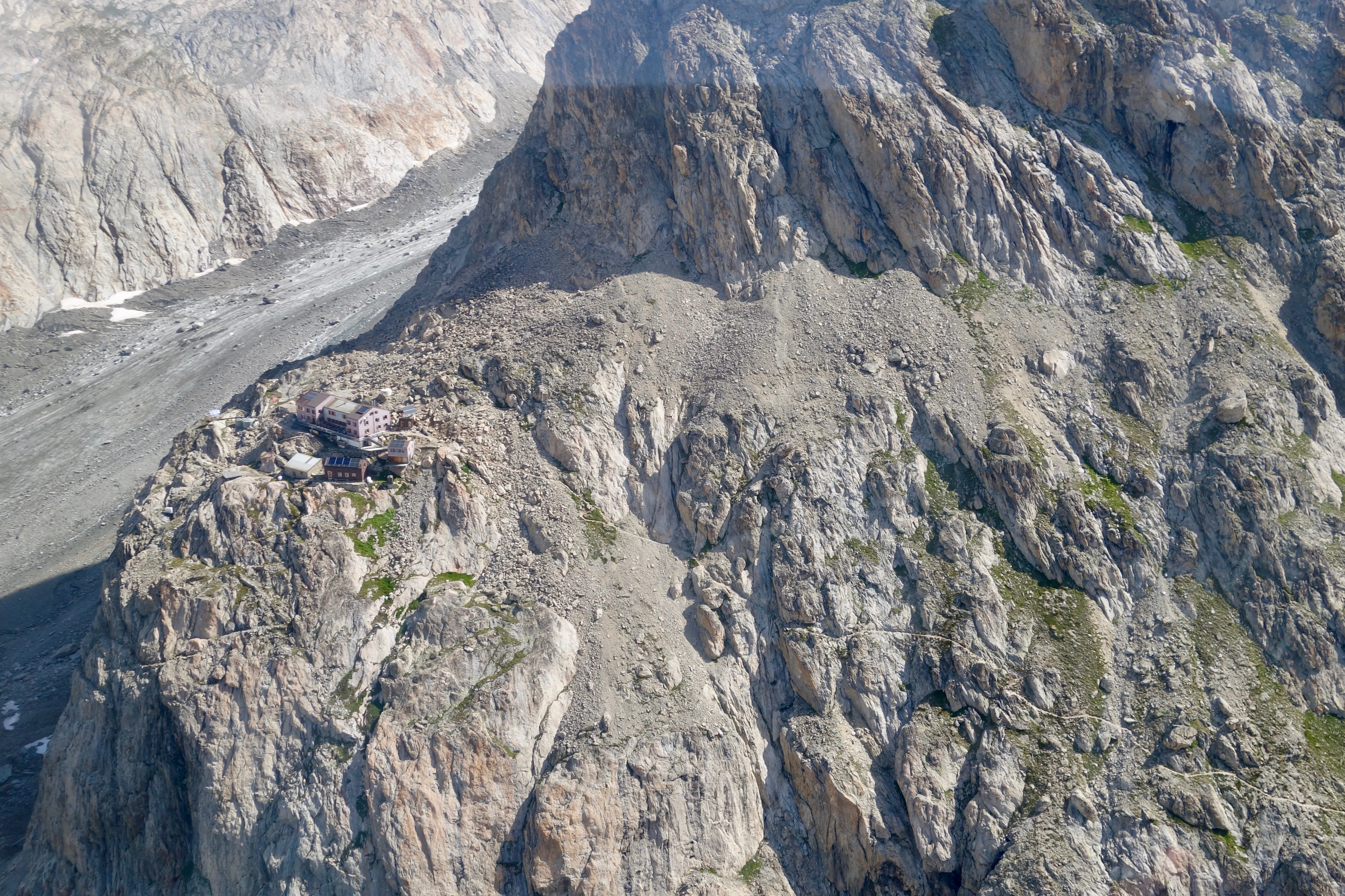 Aerial image of Konkordiahütte, Switzerland